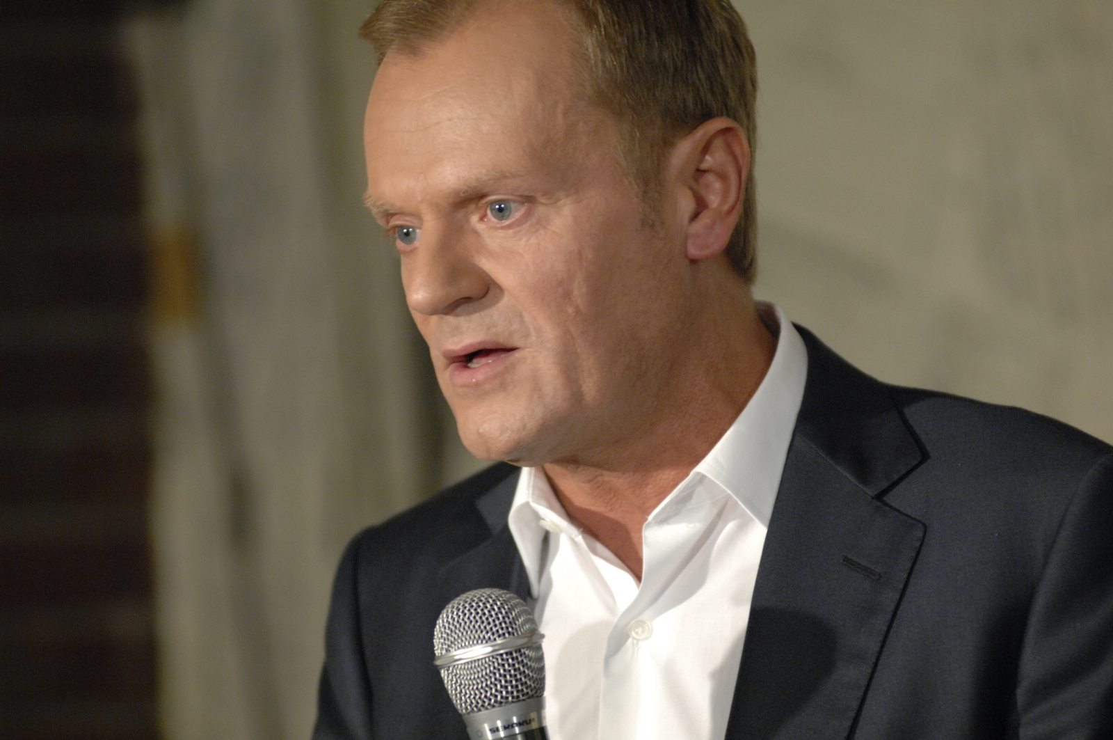 Donald Tusk